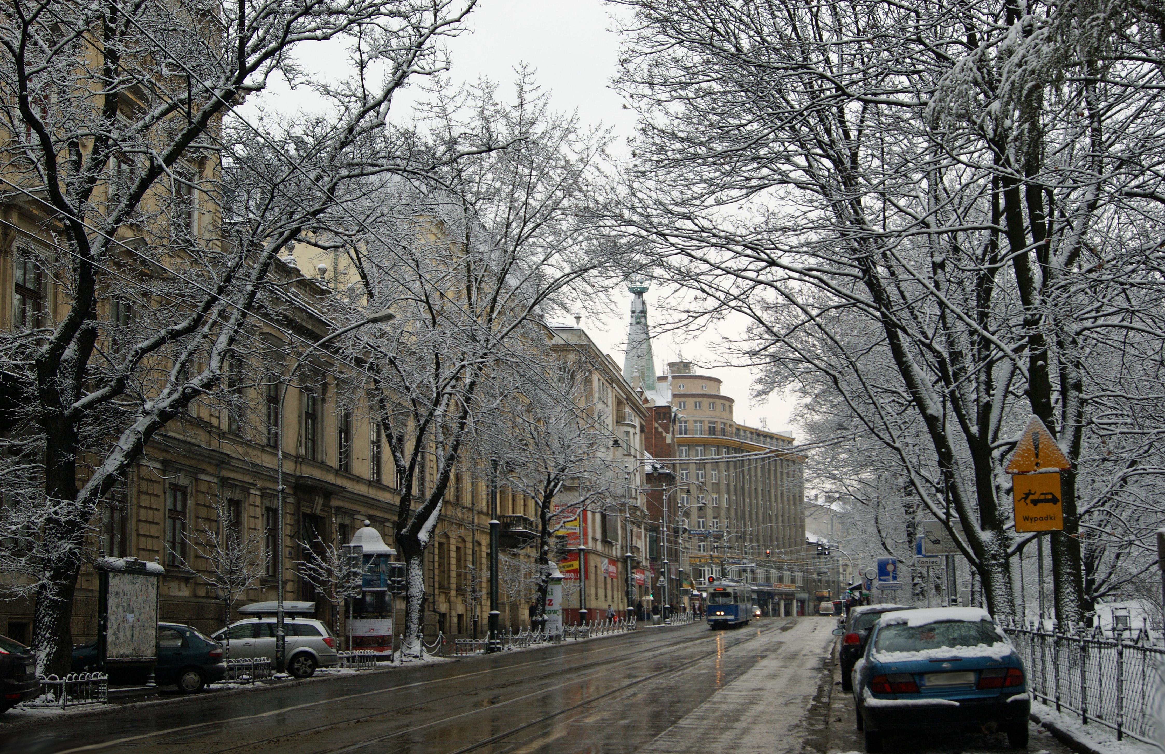 Basztowa street, Old Town, Krakow, Poland